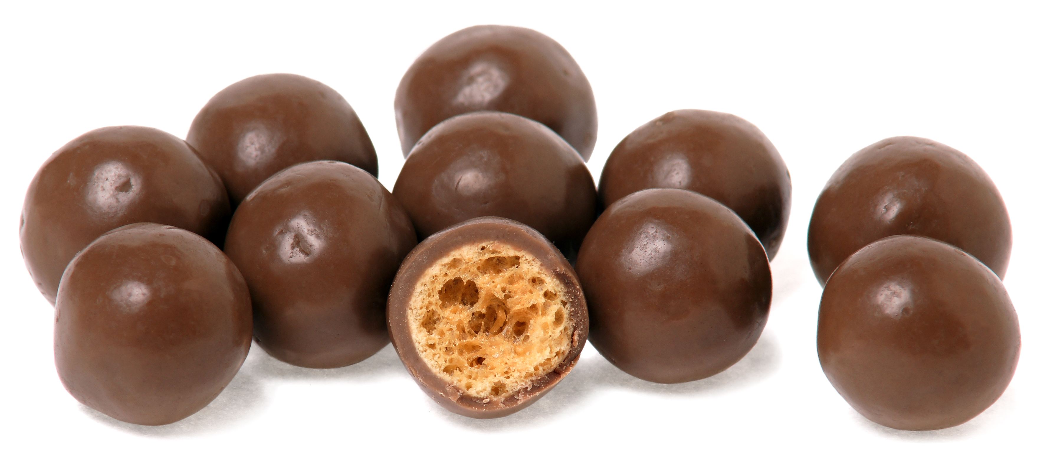 A pile of Maltesers candies and one split in half.